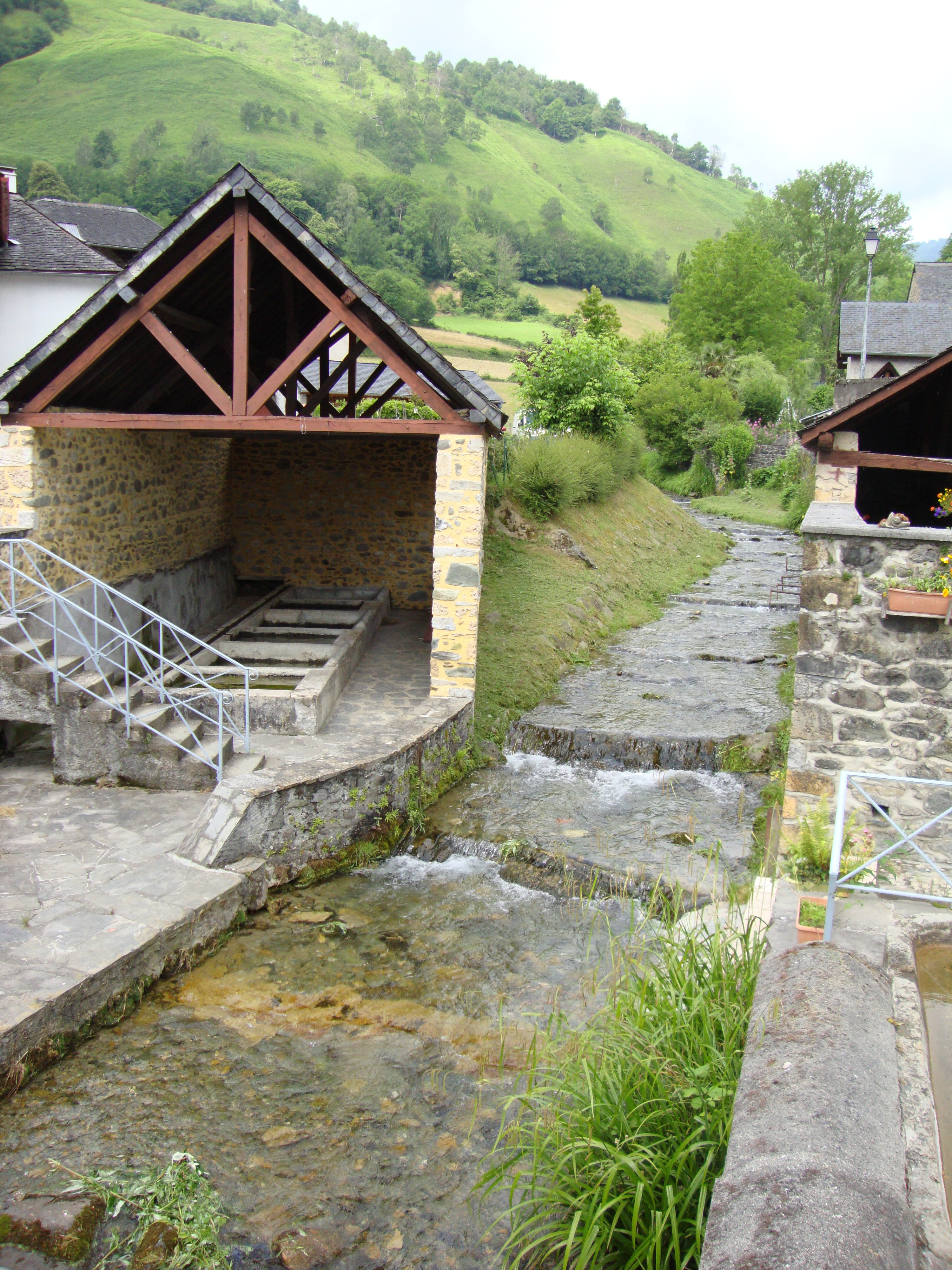 Osse-en-Aspe (Pyr-Atl, Fr) wash house on the Arricq river.